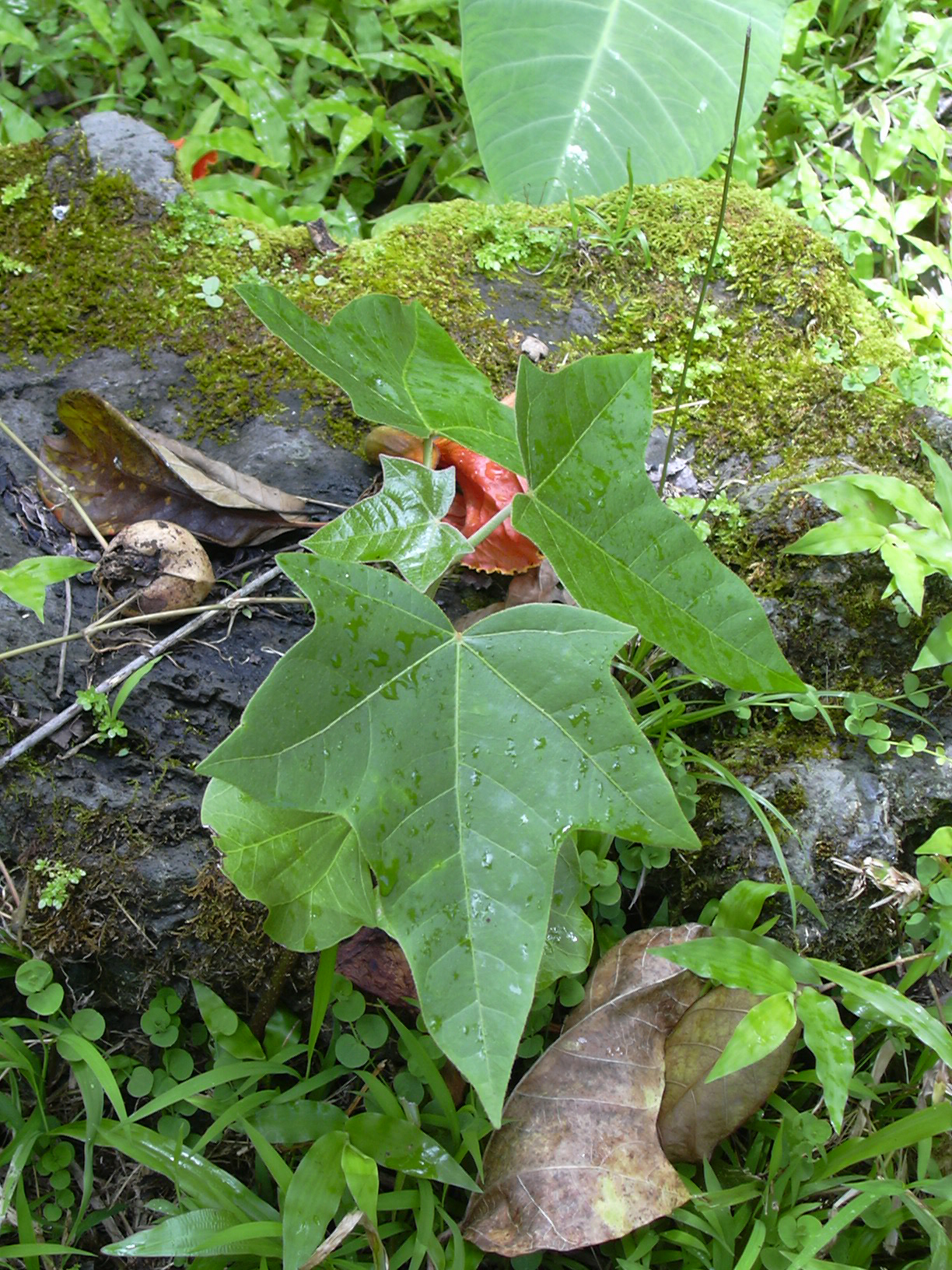 Aleurites moluccana (seedling). Location: Maui, Keanae Arboretum